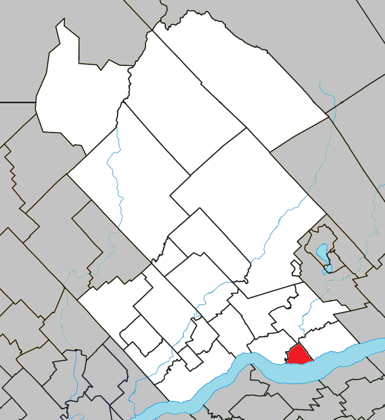 Location of Donnacona, Quebec within Portneuf Regional County Municipality.